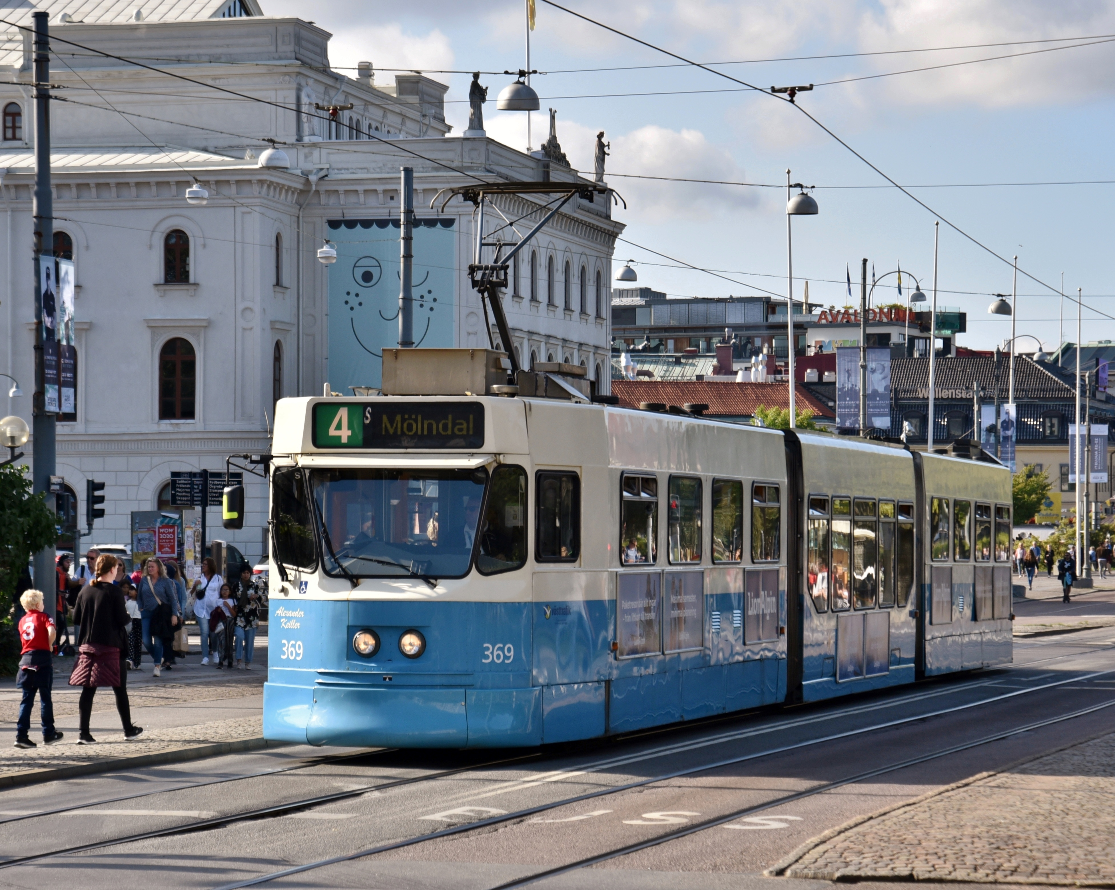 Göteborgs Spårvägar tram no. 369 operating a line 4 service in Kungsportsavenyn, Gothenburg, Sweden